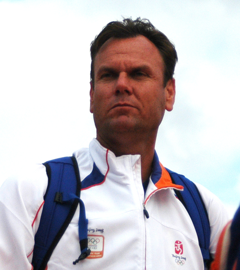 Robert Eenhoorn at the Olympic welcome in the Olympic Stadium in Amsterdam, the Netherlands